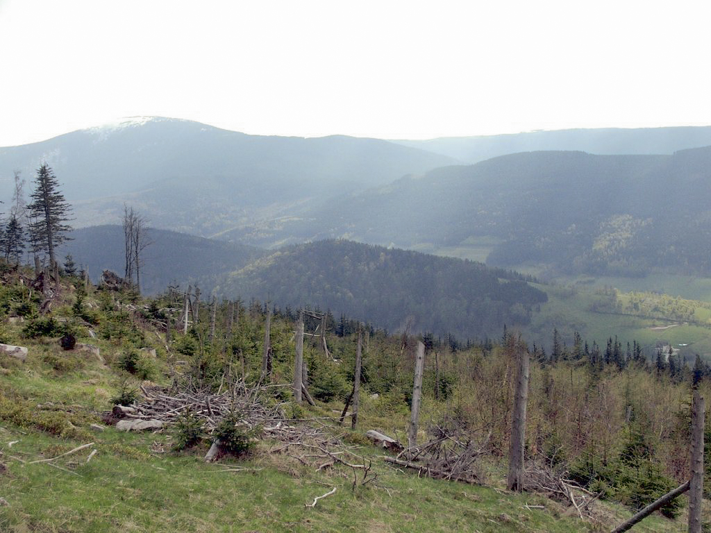 Zawada and Śnieżnik – view from Suszyca (Śnieżnik Mountains, Eastern Sudetes, Poland)